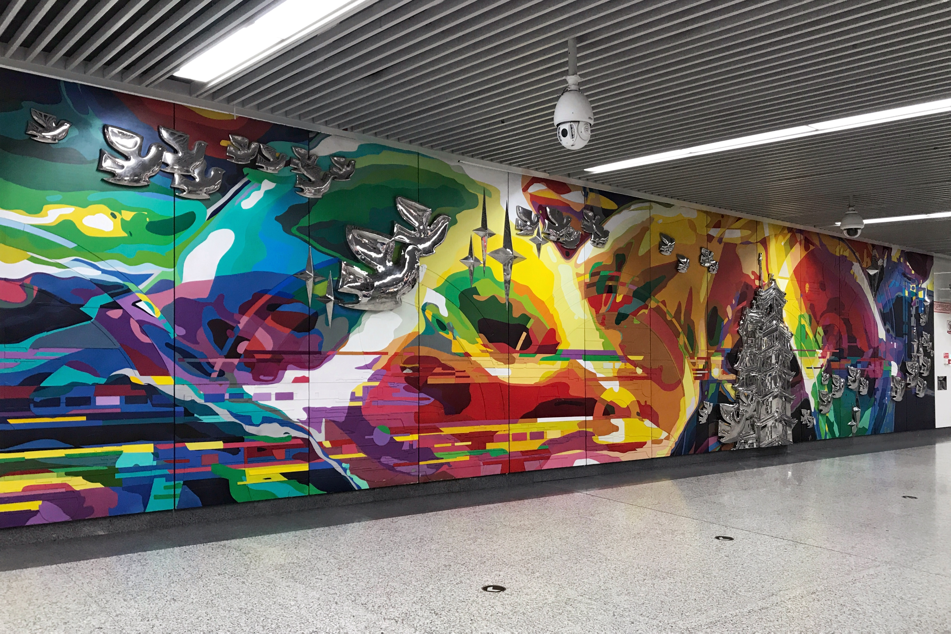 Artwork at Erqiguangchang Station